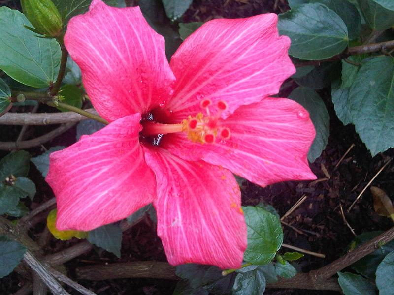 Mandrinette (Hibiscus fragilis) flower in Kew Gardens, England.